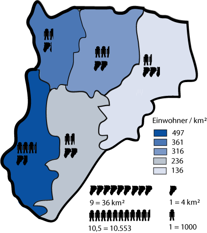 Poulation distribution of Rödinghausen, Kreis Herford (Germany).